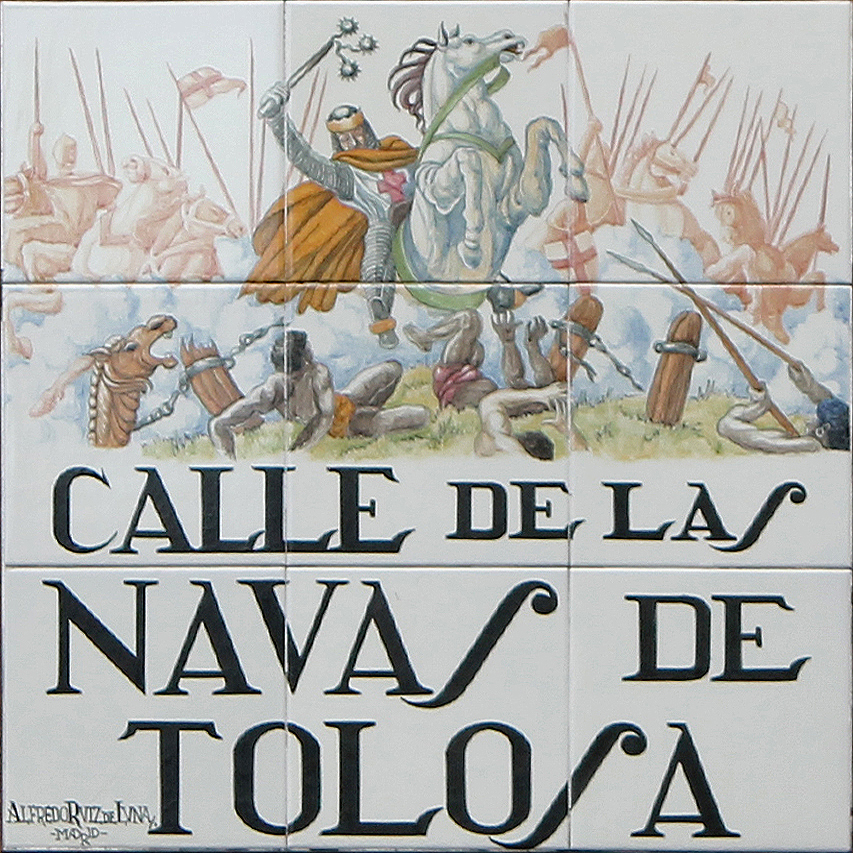 Sign of Calle de Las Navas de Tolosa (literally "Las-Navas-de-Tolosa Street") in Centro district in Madrid (Spain).